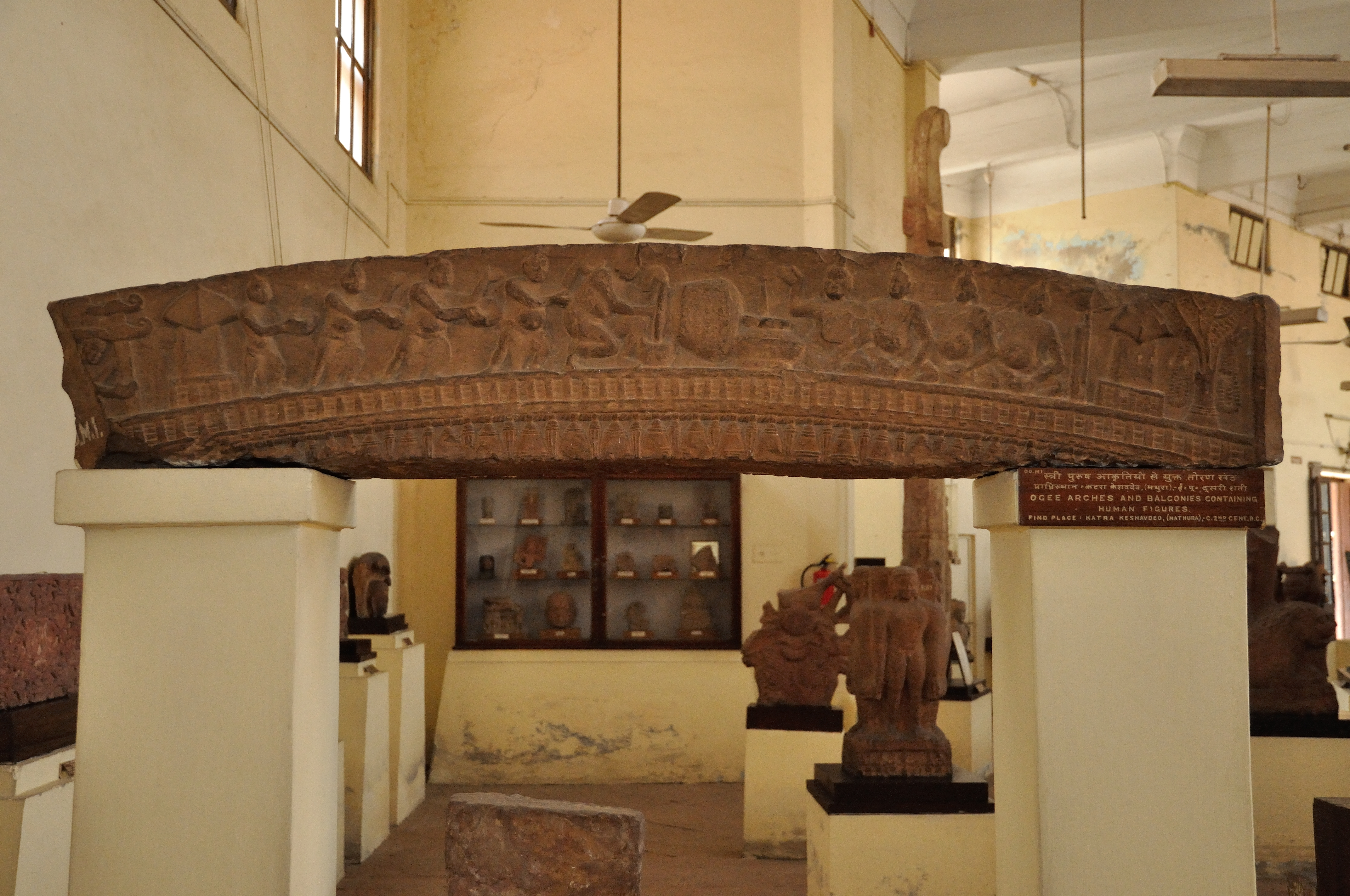 This artefact resides at the Government Museum, (hi: Rashtriya Sangrahalaya) formerly The Curzon Museum of Archaeology, Museum Road or Murari Lal Rajpal road, Dampier Nagar, Mathura, Uttar Pradesh, India. This museum is administrating by the State Government of Uttar Pradesh of India.